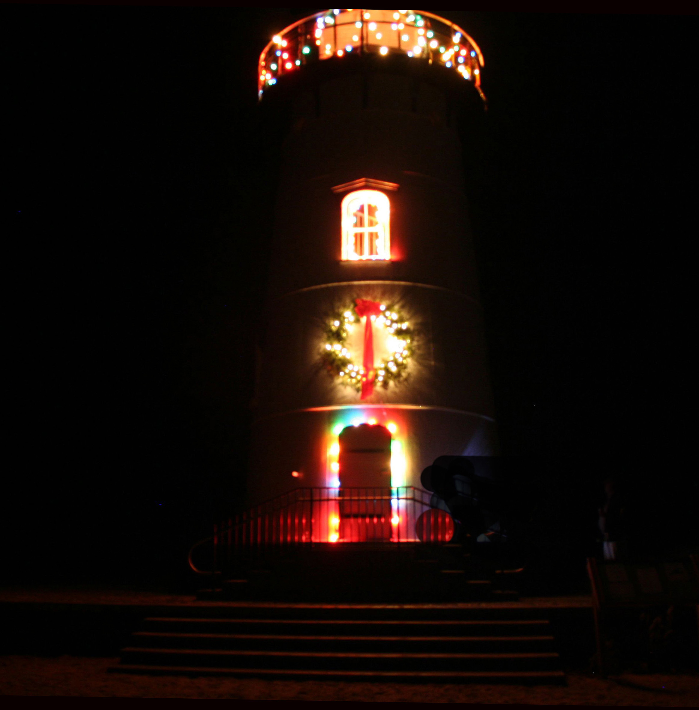 Edgartown Harbor Light decorated for 2012 holiday festivities during the Christmas in Edgartown weekend of December 7, 2012. These decorations will adorn the lighthouse, and include a large green wreath not visible in this nighttime photo until after New Years Day 2013. This annual ceremony of decorating Edgartown Harbor Light during the holidays was initiated by Vineyard Environmental Research, Institute (VERI), shortly after VERI saved the lighthouse from being torn down during the 1980s.